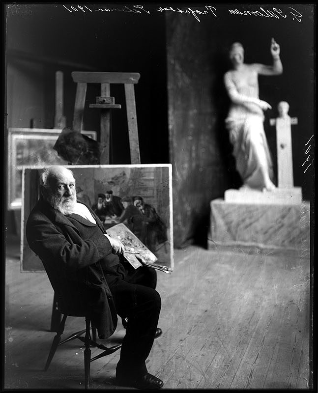 Swedish/Danish artist and professor Geskel Saloman